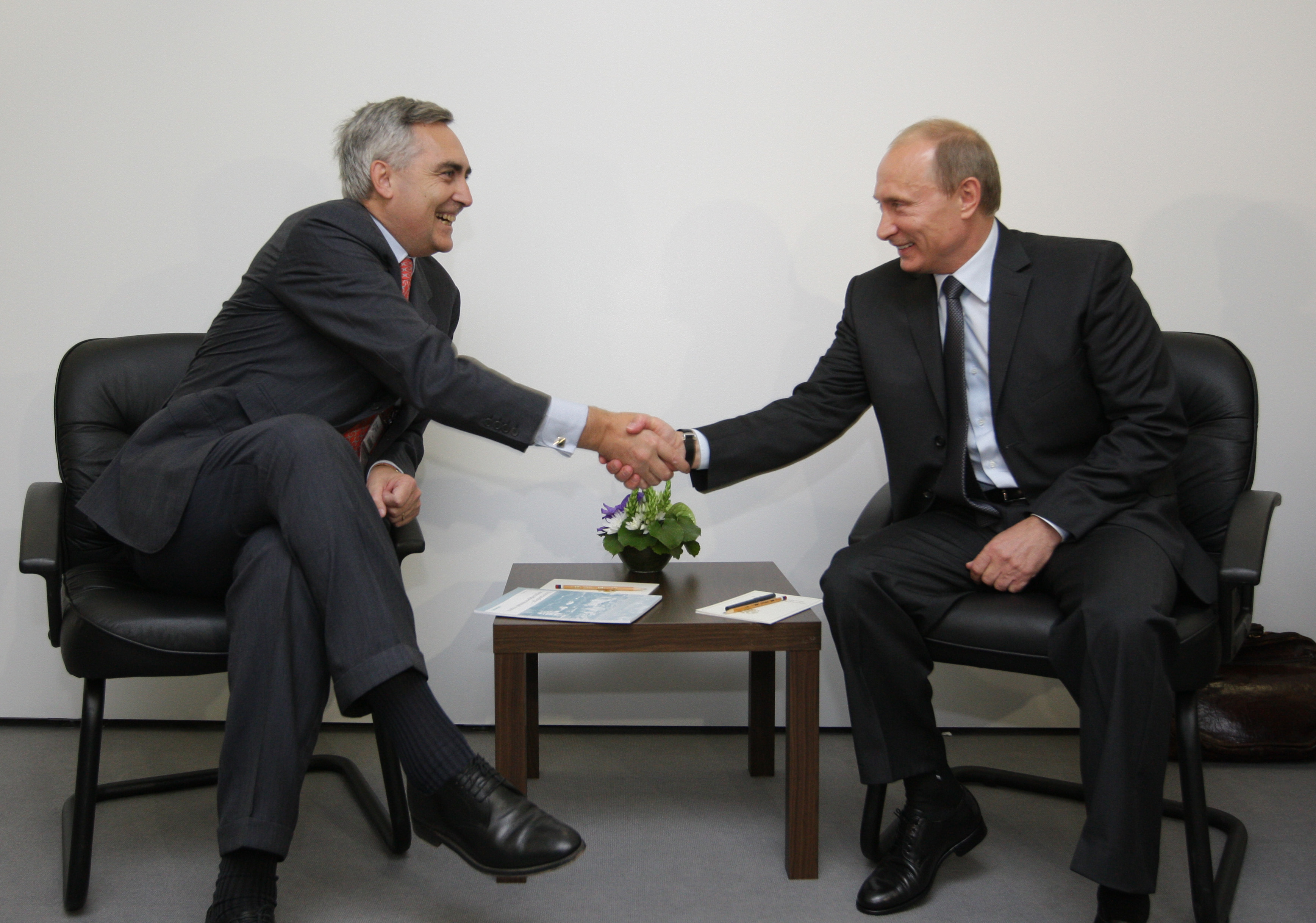 Prime Minister Vladimir Putin meeting with President and CEO of Siemens AG Peter Löscher